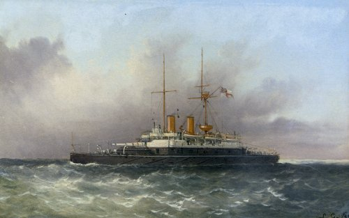 HMS Anson in the Mediterranean 1885 (sic: vessel was launched in 1886 and commissioned 1889).